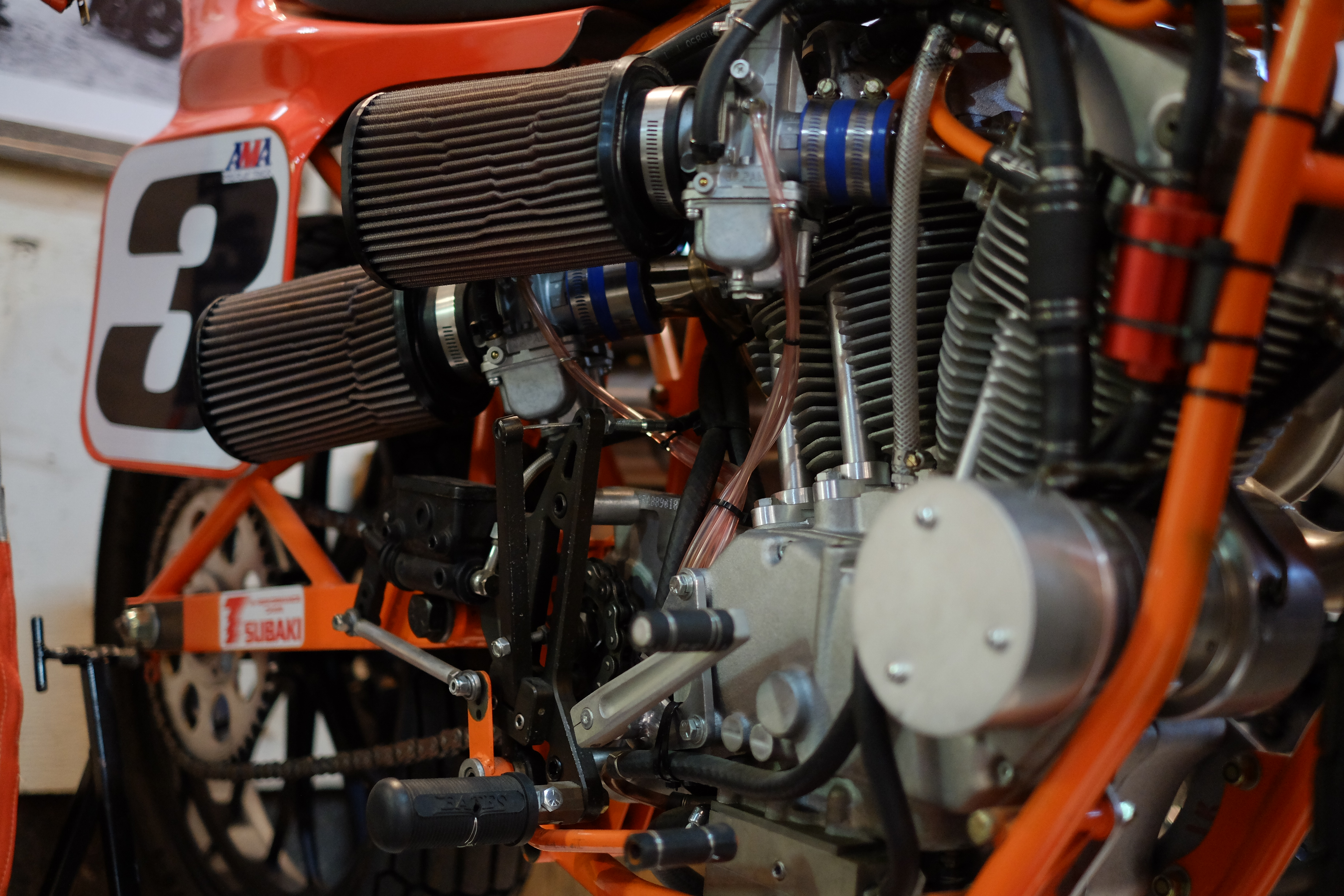 Team Latus Harley-Davidson XR-750 at The One Motorcycle Show, Portland, Oregon.